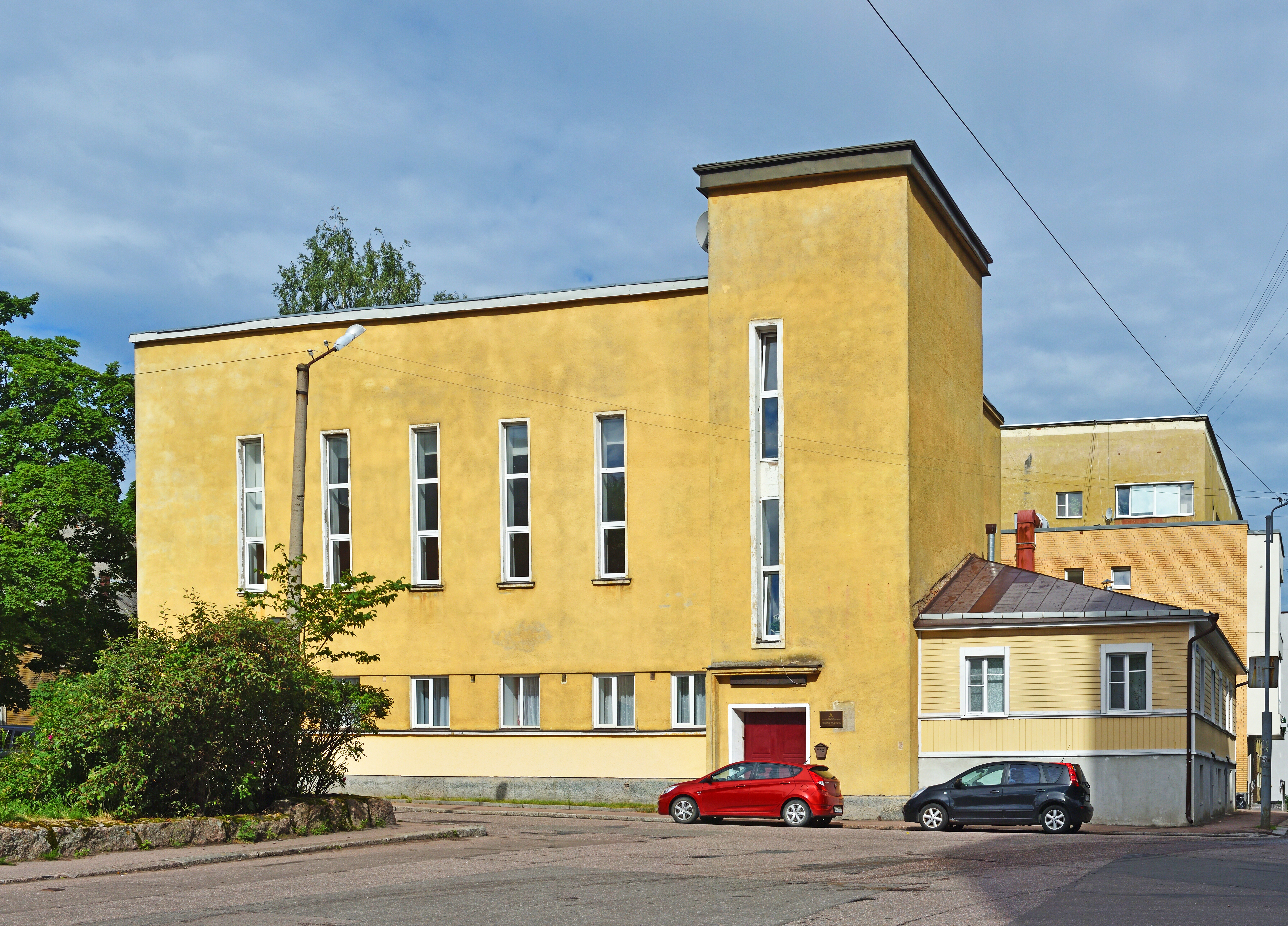 Seventh-day Adventist Church, Sadovaya street 17, Vyborg, Leningrad oblast, Russia